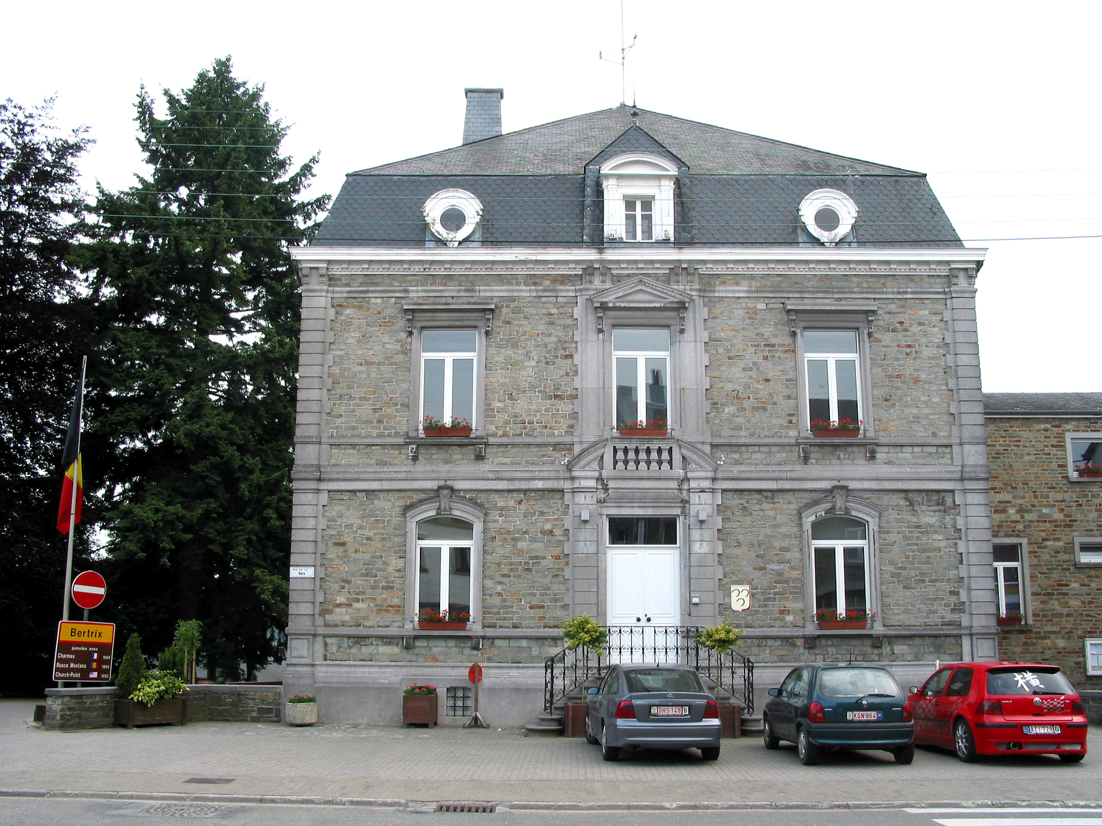 Bertrix (Belgium), the town hall.